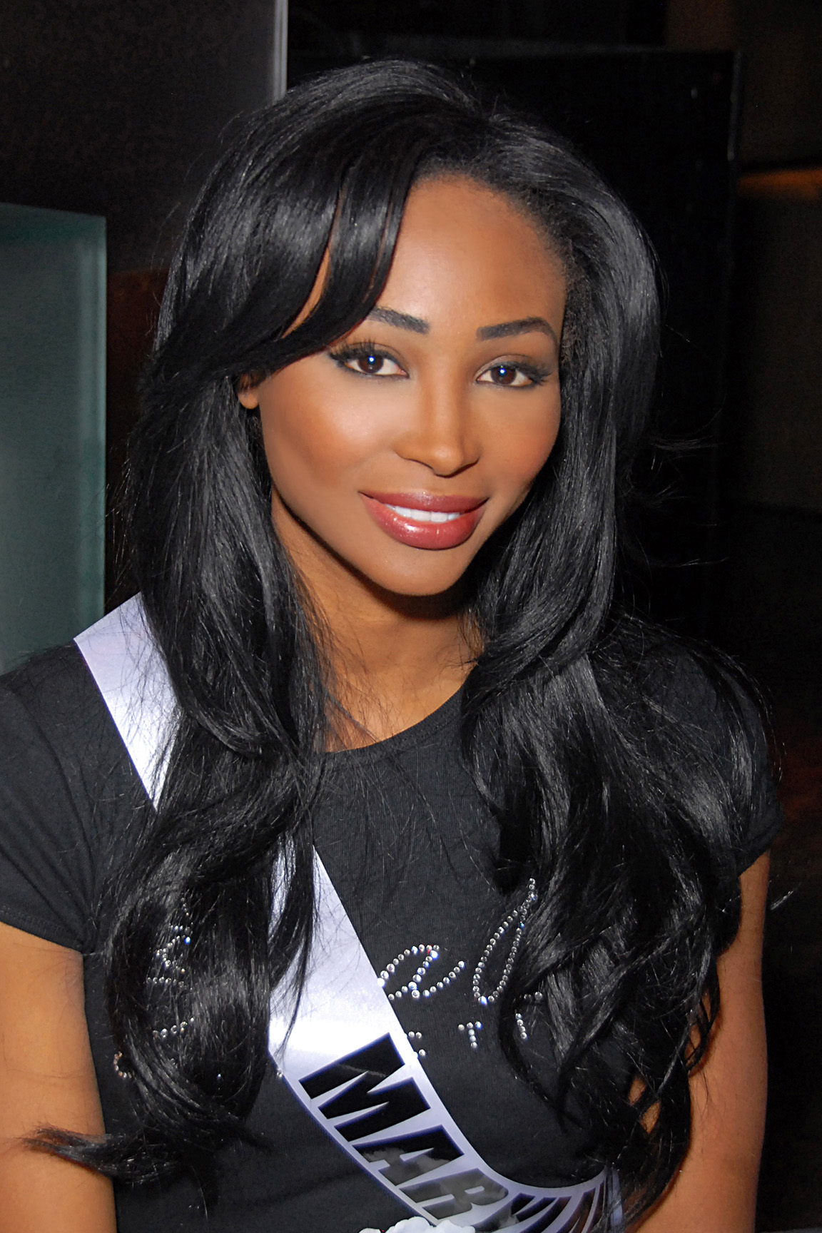 Nana Meriwether, Las Vegas, NV on May 28, 2012 - Photo by Glenn Francis and